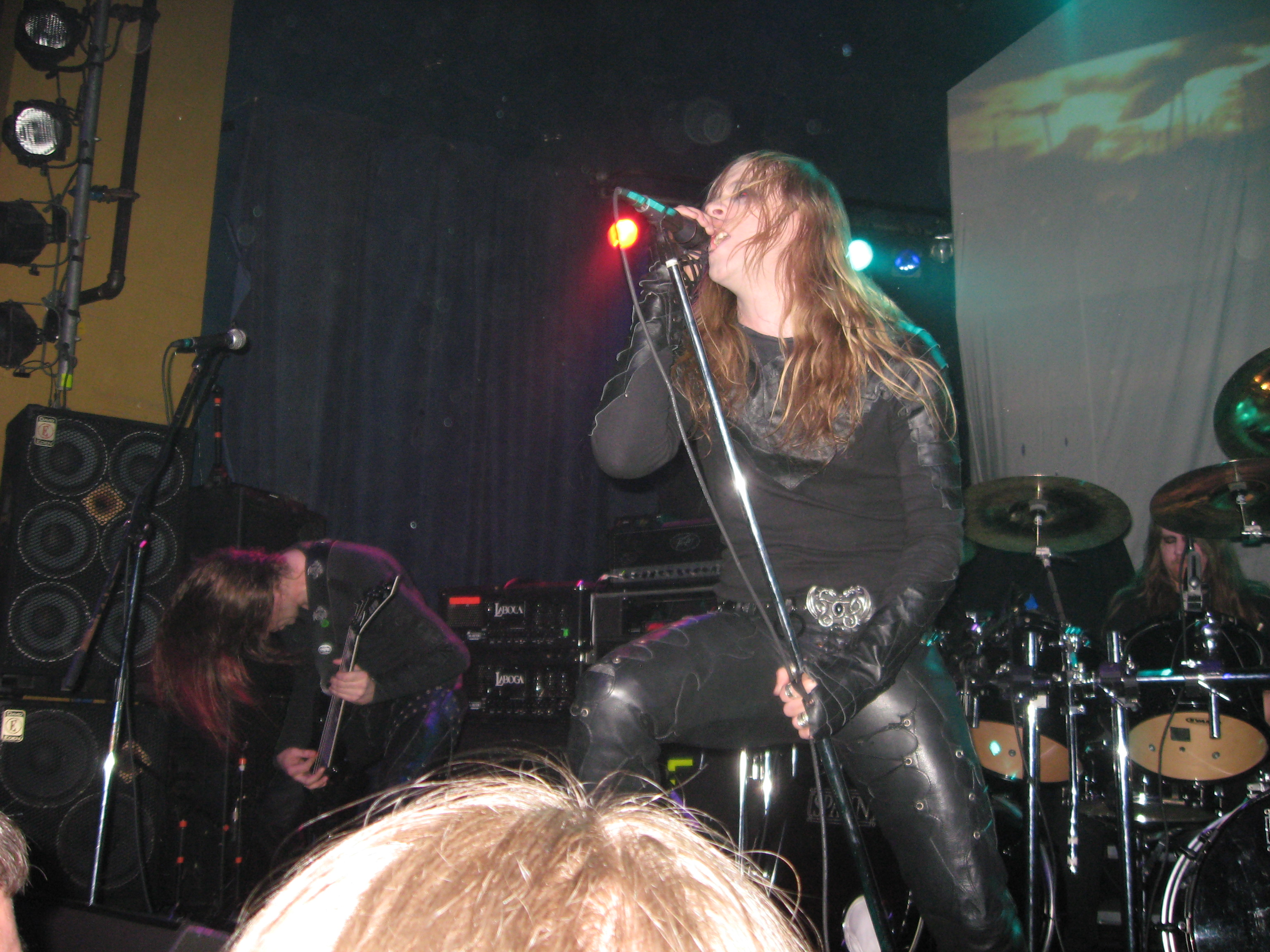 Photo of Keep of Kalessin Playing at Mr. Smalls in Pittsburgh, PA.